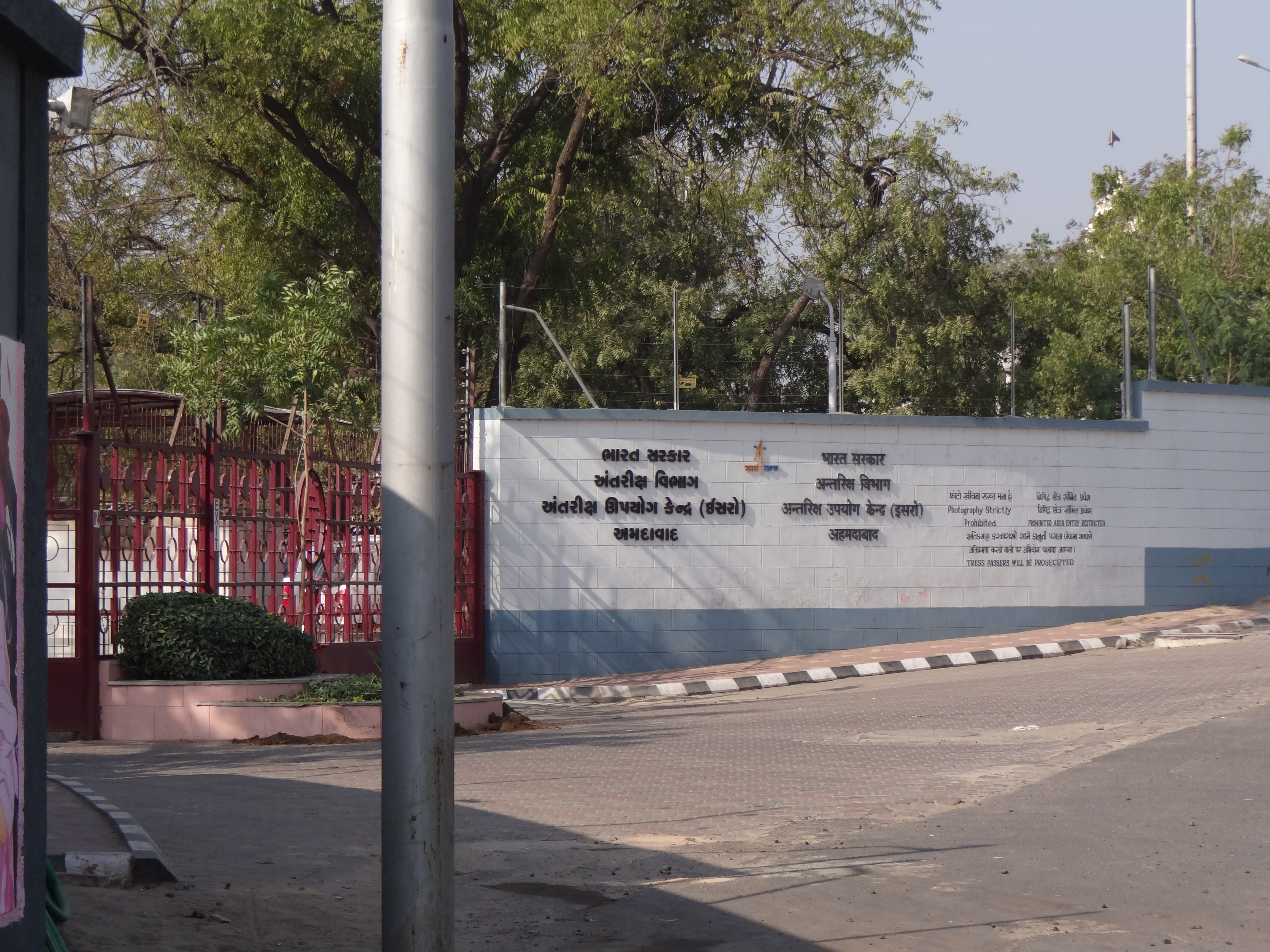 The main gate of Indian Space Research Organization Ahmedabad.